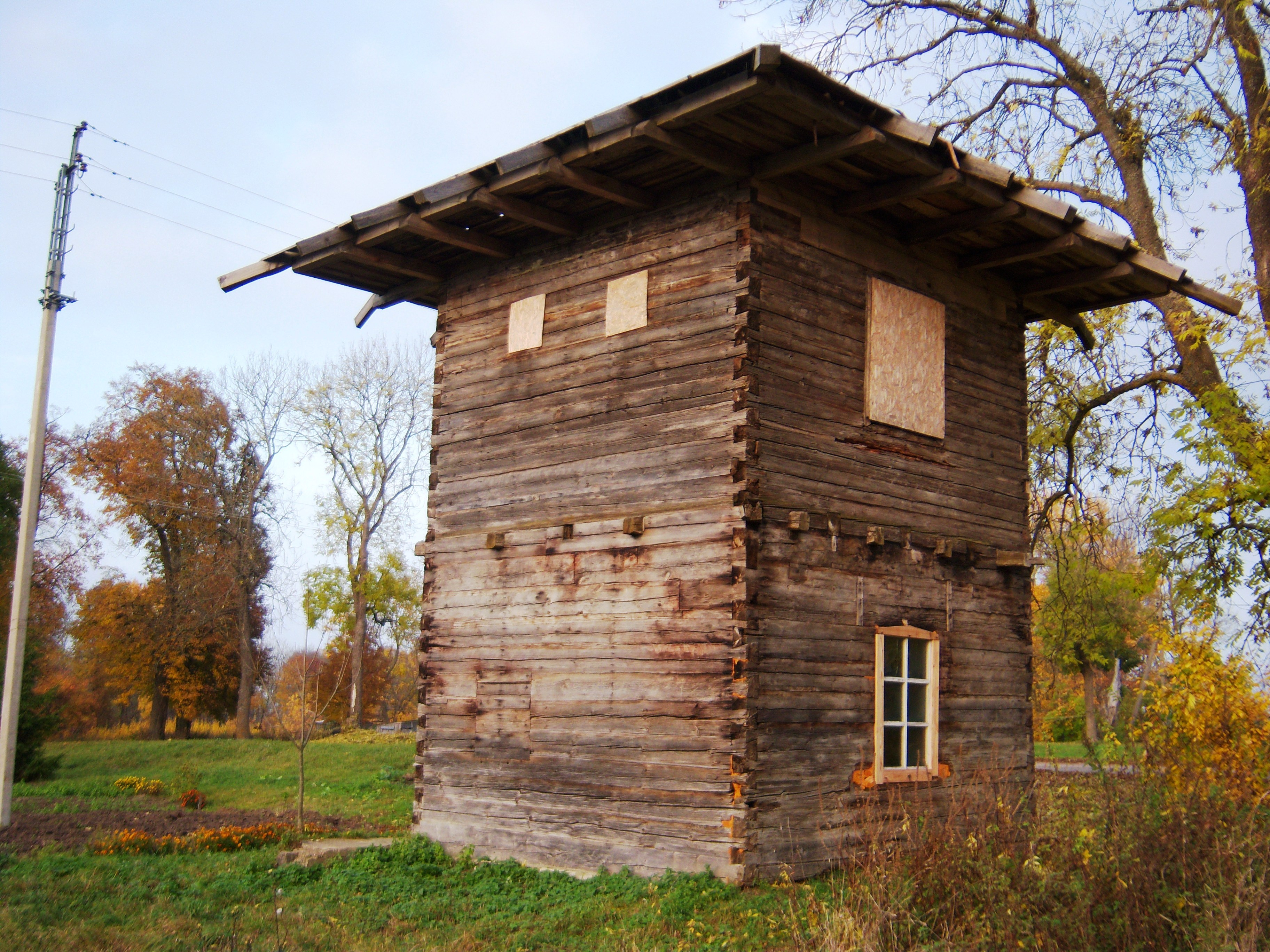 Former manor in Aknystos, smokehouse, Anykščiai District, Lithuania